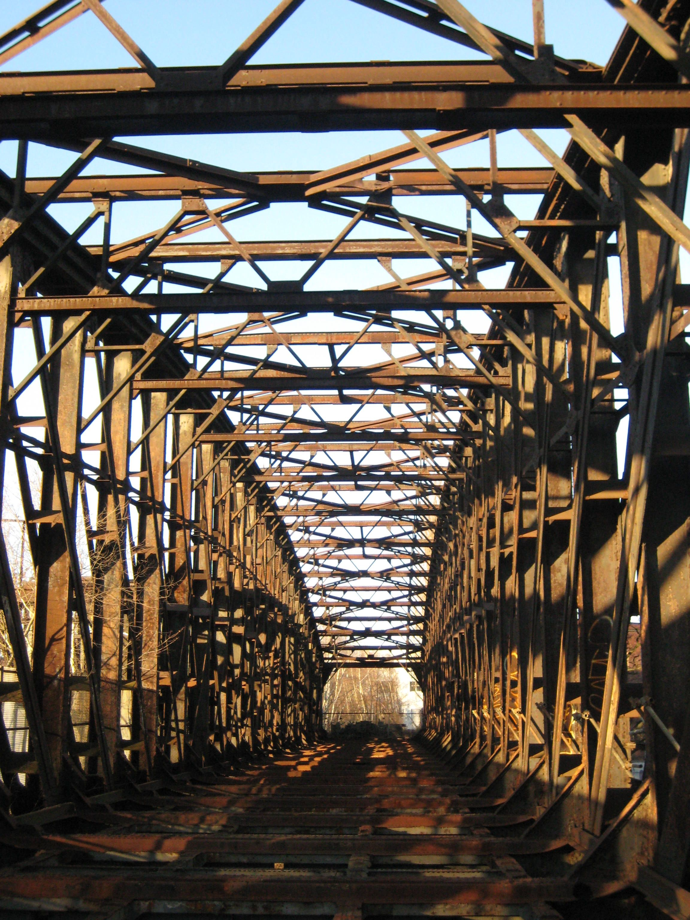 disused Eastern bridge of the landmarked railway bridges at Liesenstraße and Gartenstraße in Berlin („Liesenbrücken“)